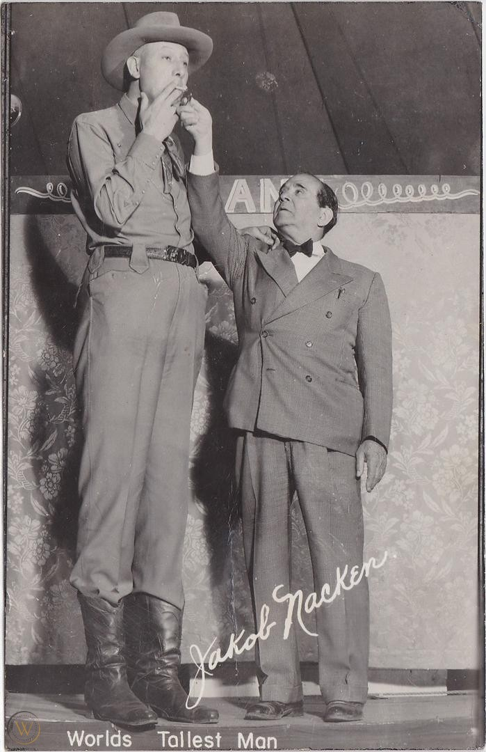 Jakob Nacken post card in Ripley's Odditorium amusement era